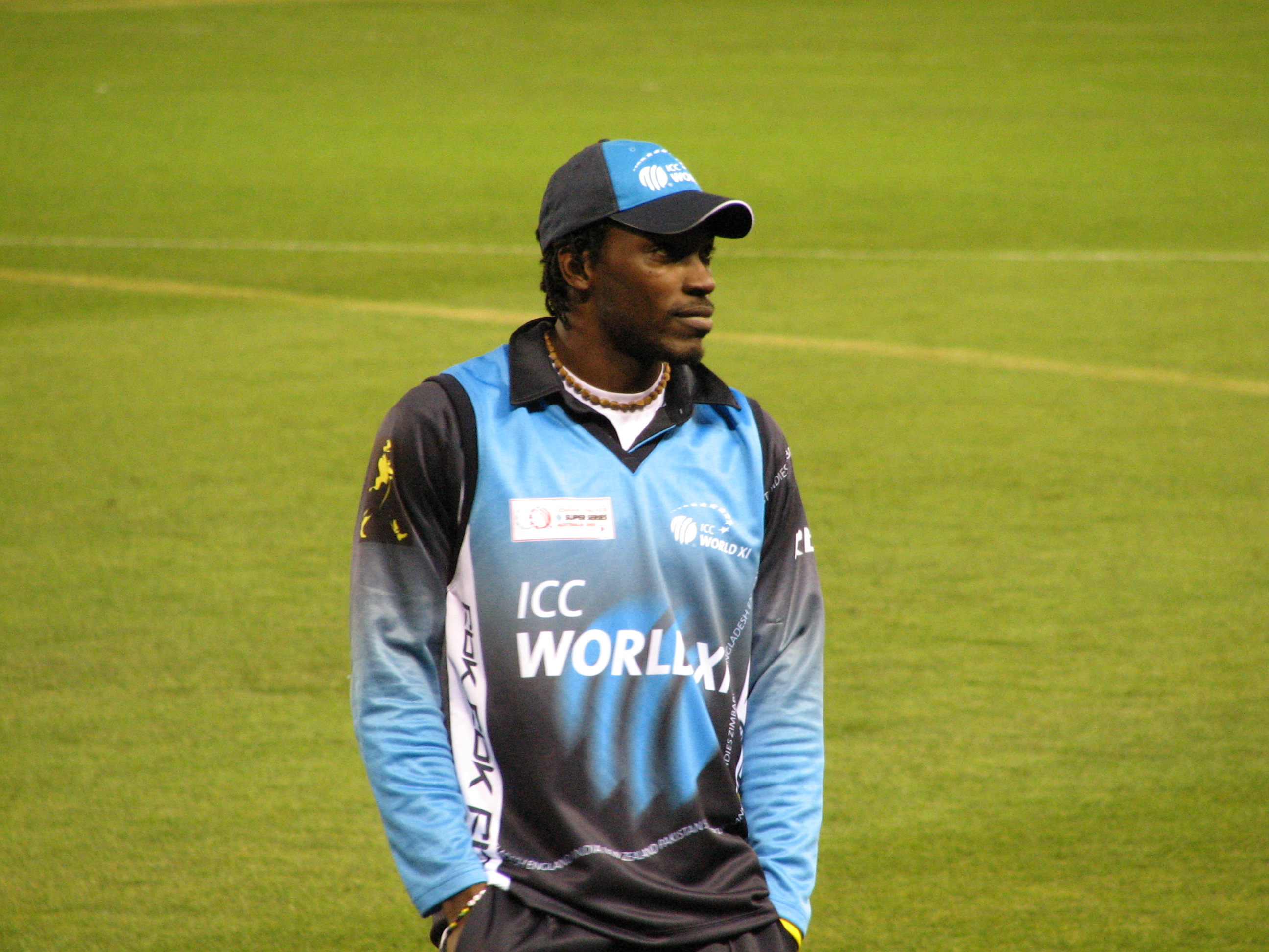 Chris Gayle on the field at the Telstra Dome during an ICC Super Series 2005 cricket match.